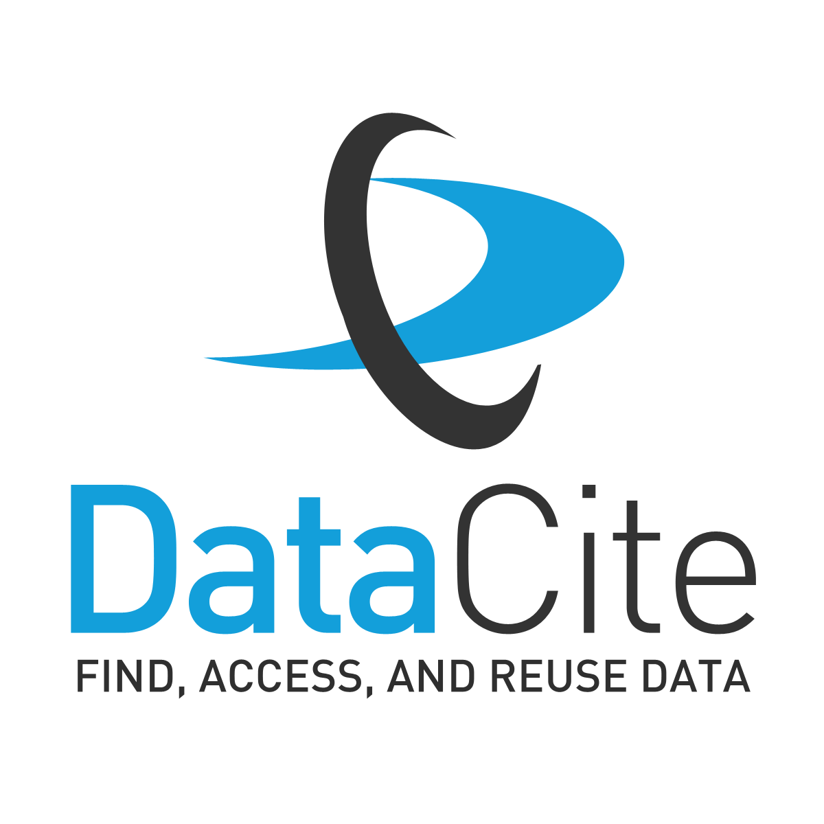 DataCite logo.